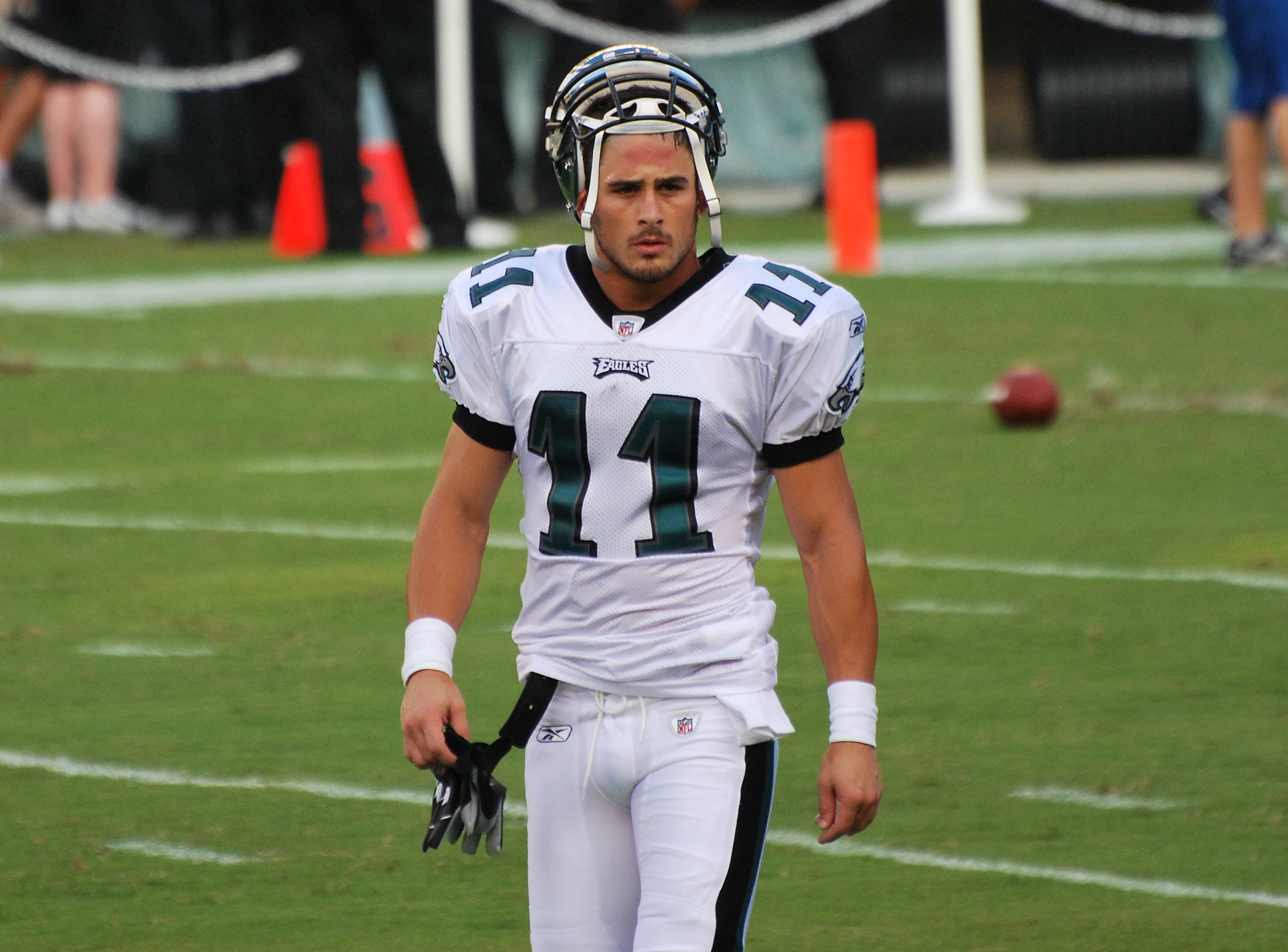 Danny Amendola in August 2009